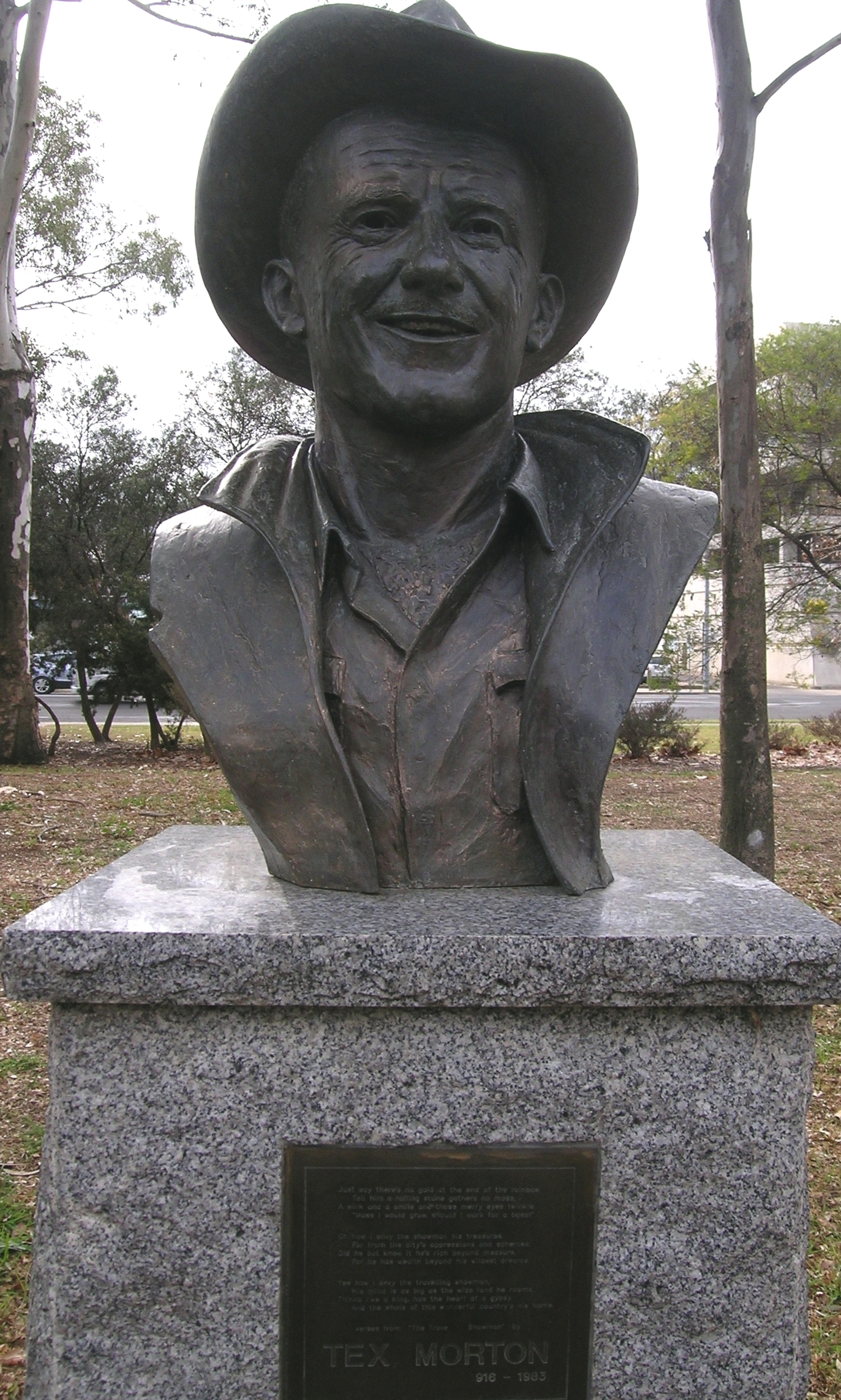 Bust of Tex Morton, Bicentennial Park, Tamworth, NSW.